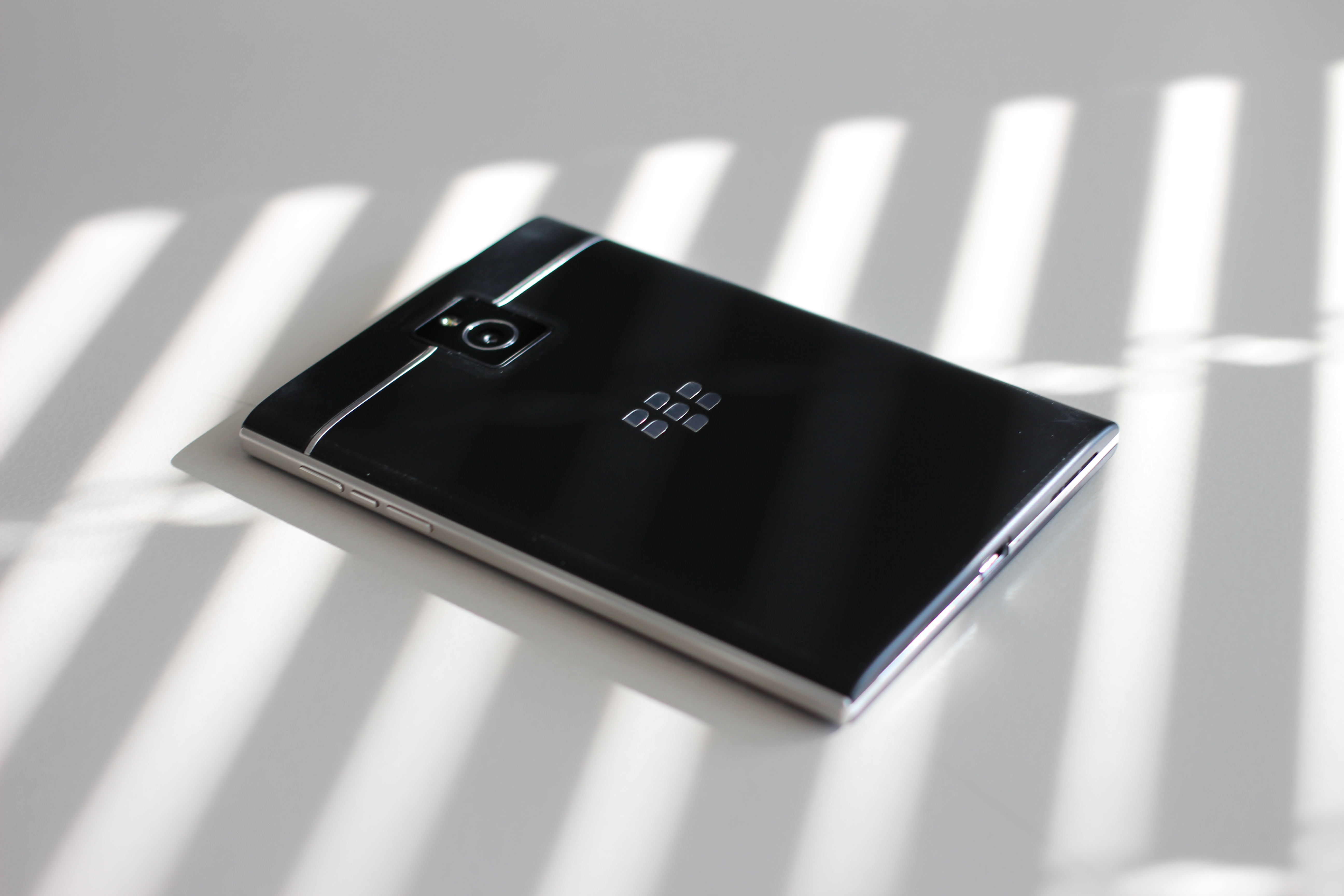 BlackBerry Passport